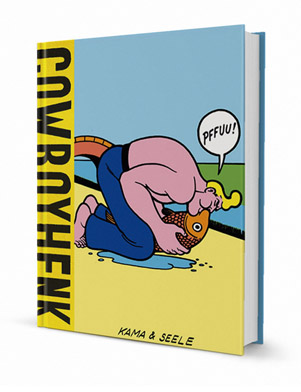 Photo Cover TPB Comic Cowboy Henk published in spanish by Autsaider Comics in September 2014. Cowboy Henk is a cartoon character created by Herr Seele (Peter van Heirseele) and Kamagurka (Luc Charles Zeebroeck) Started in 1981 to be published in the Belgian newspaper De Morgen and later, due to complaints from readers so transgressor some of his cartoons, go to the Flemish magazine Humo, where it is continuously published until 2010. The photo is taken from the website of specifically the page that describes the comic in question